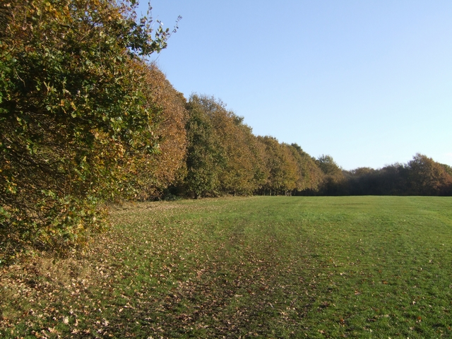 Autumn in Rough Wood Nature Reserve The seventy acre reserve contains the largest block of oak woodland in the old West Midlands County. The former royal hunting forest was extensively worked for coal and clay from the 1700s.